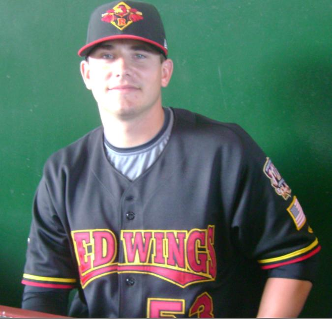 Brian Duensing 6/12/08 04:31, 13 June 2008 . . Phil5329 . . 675×649 (44 KB)